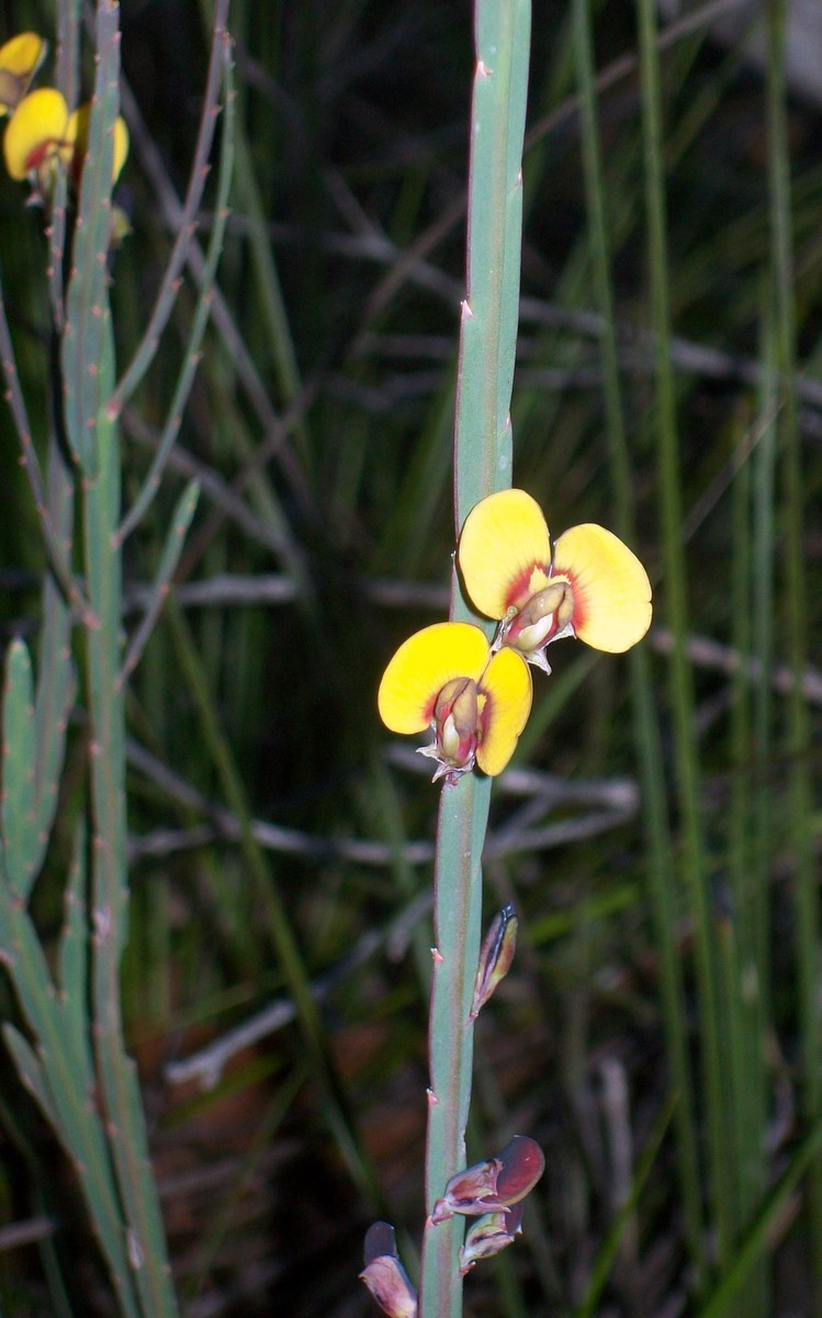 metre plus tall pea type wildflower on the Towlers Bay Track, Ku-ring-gai Chase National Park, Australia. Wide "leafless" stalks. Likely to be a Bossiaea